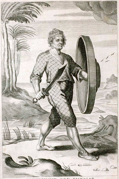 "Clothing of Bisnagar [Vijayanagar]," a Dutch engraving by *Cornelius Hazart*, 1667 Source: ebay, Mar. 2007